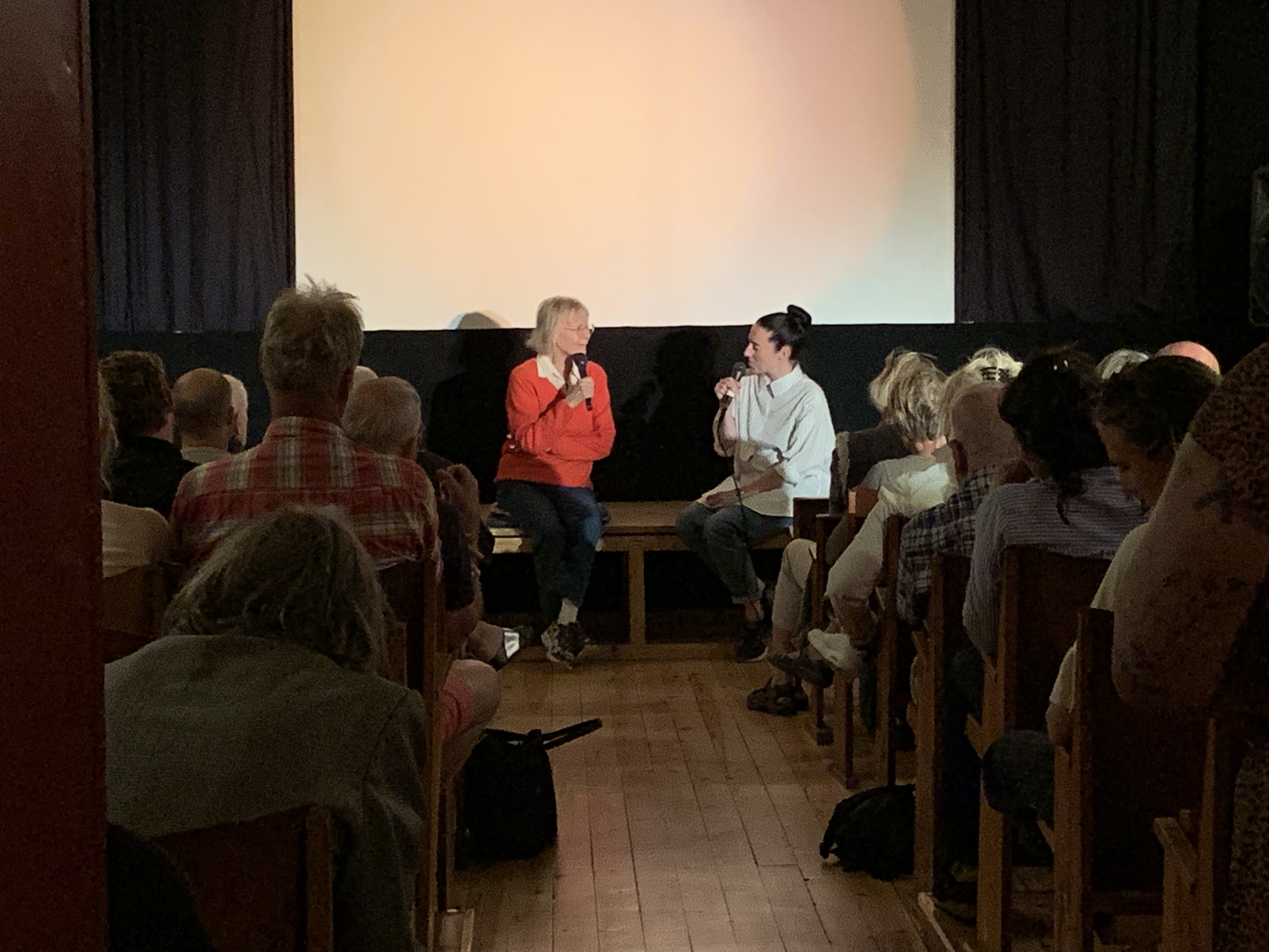 Harriet Andersson presenting the screening of Sawdust and Tinsel during Bergmanveckan 2019 at Sudersandsbiografen.